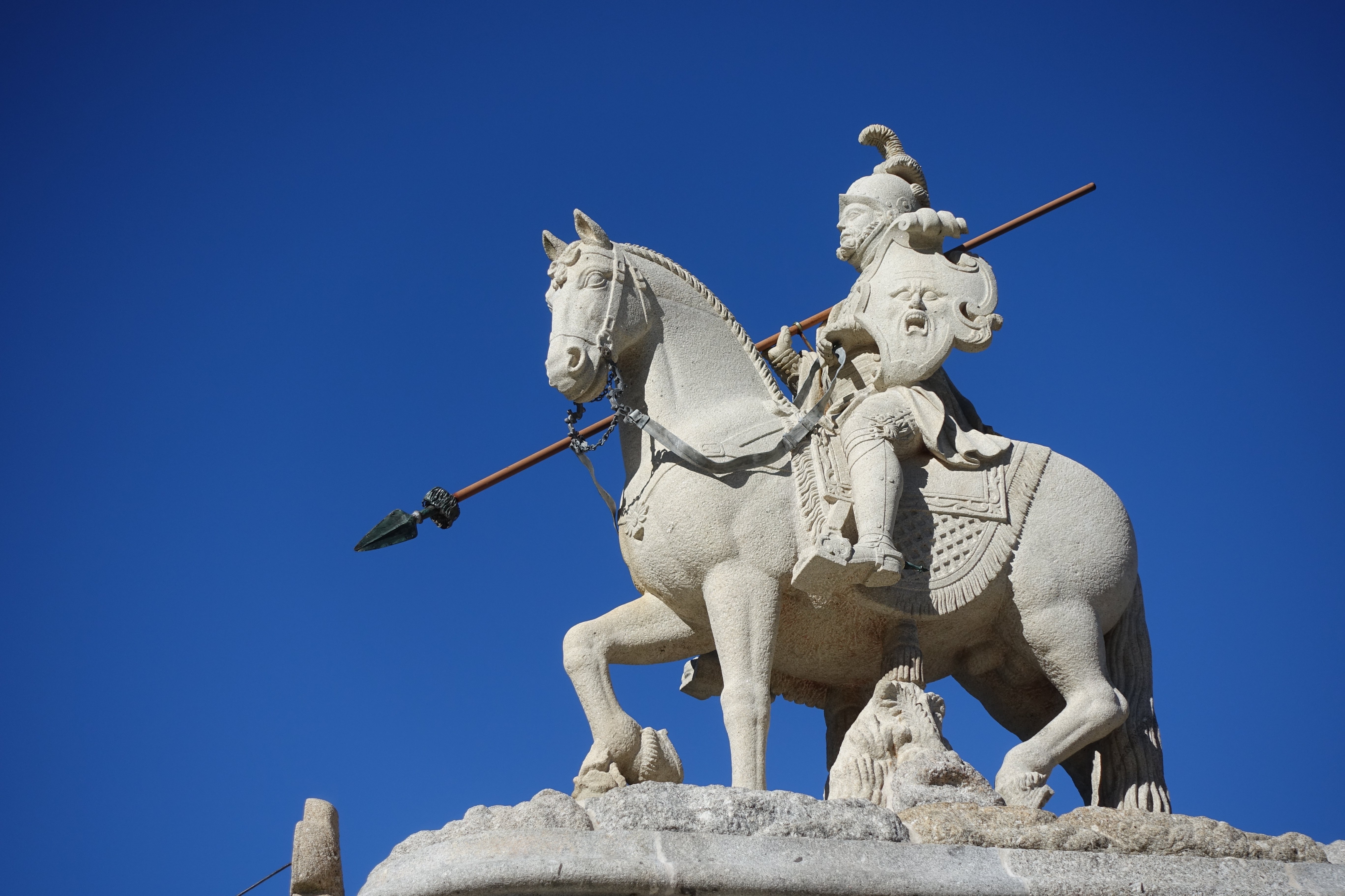 Saint Longinus statue in Bom Jesus, Braga, Portugal.